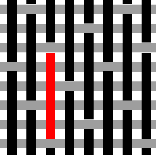 floating 500px